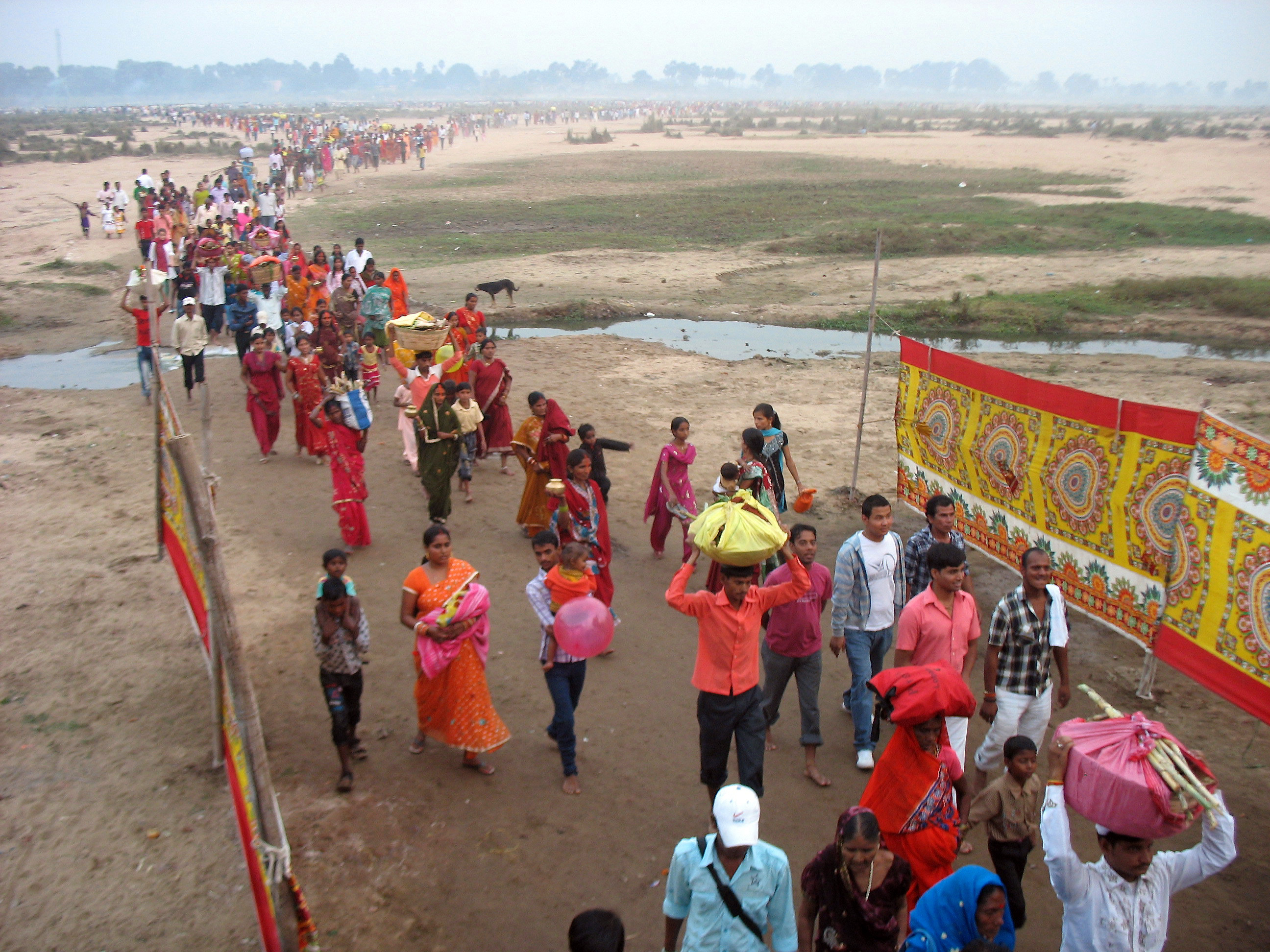 Sun festival at the riverside in Bodhgaya